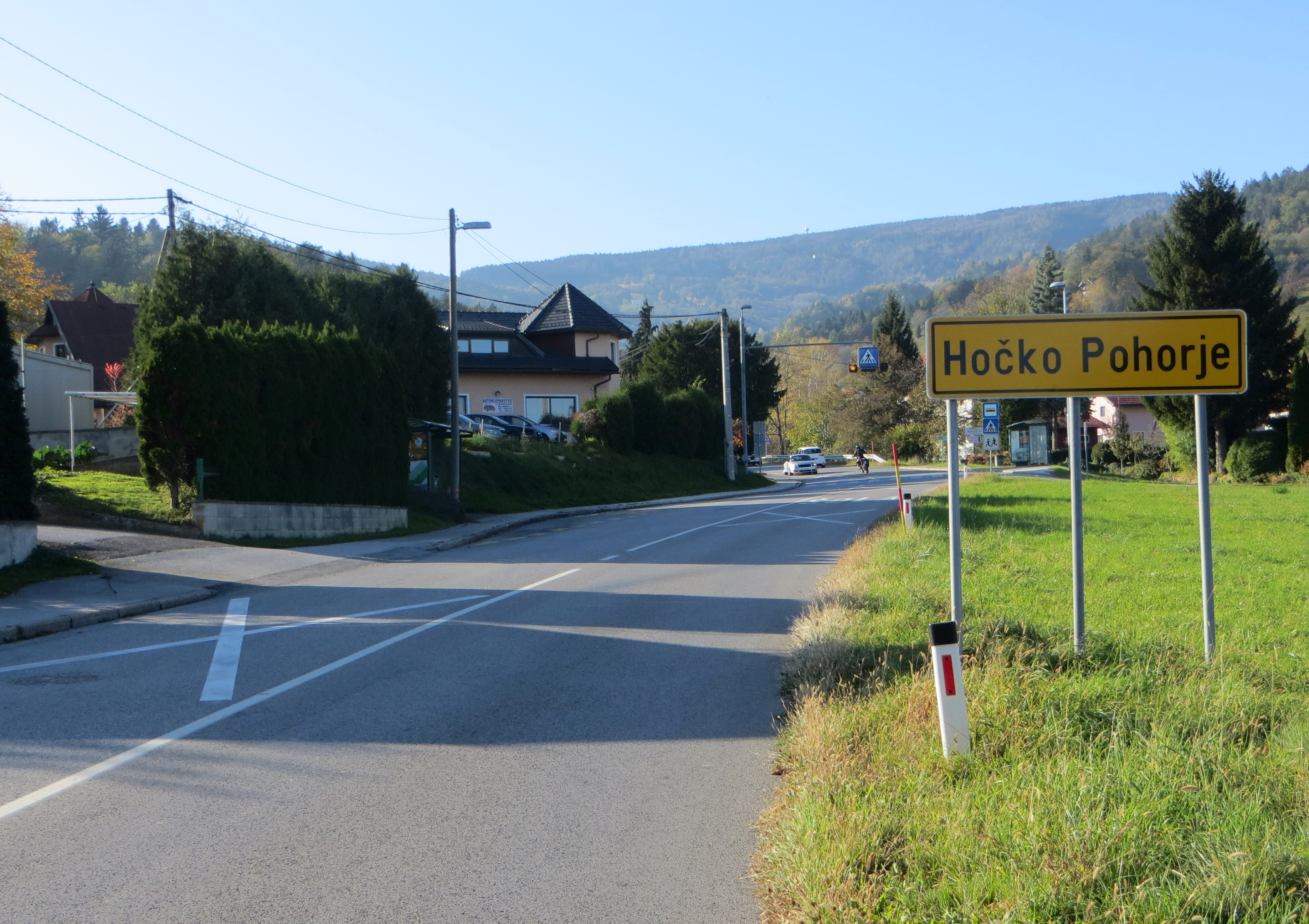 Hočko Pohorje, Municipality of Hoče–Slivnica, Slovenia